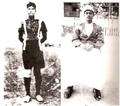 Hasn Shams in Traditional Costume and Alahli Kit